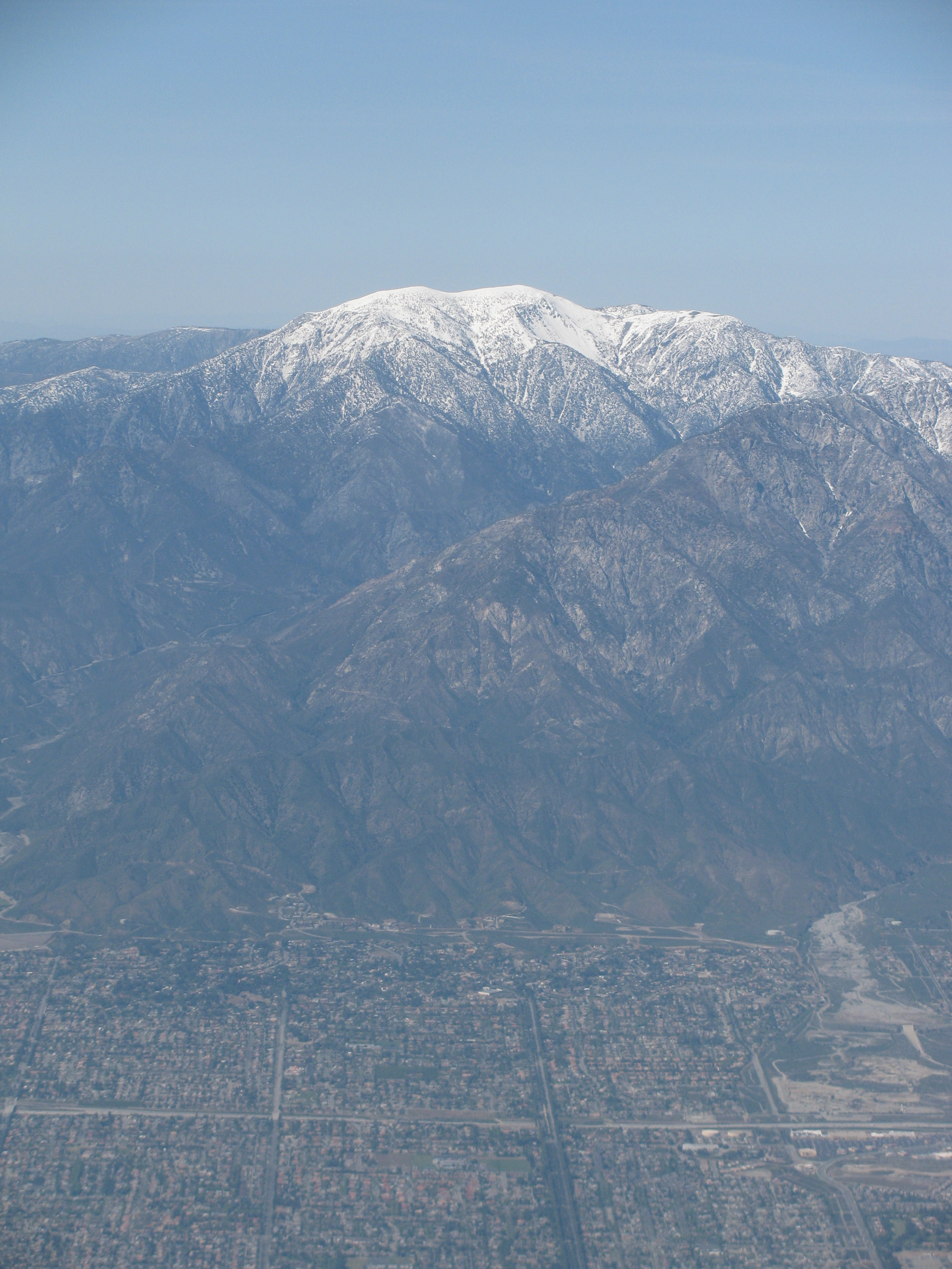 Aerial view of Mt. San Antonio, also known as Mt. Baldy, in Southern California, facing north.